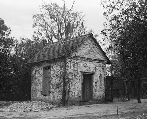 Woodlands Study (William Gilmore Simms House), Bamberg County, South Carolina. From the Historic American Buildings Survey of South Carolina (cropped).